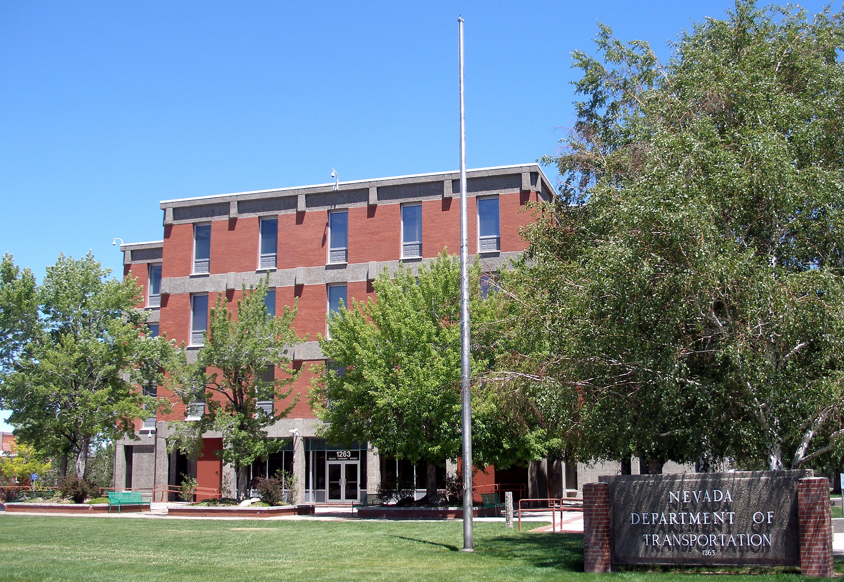 Nevada Department of Transportation building in Carson City, Nevada.